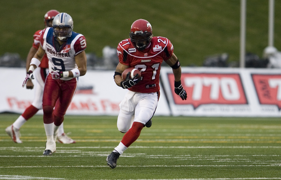 Joffrey Reynolds running.